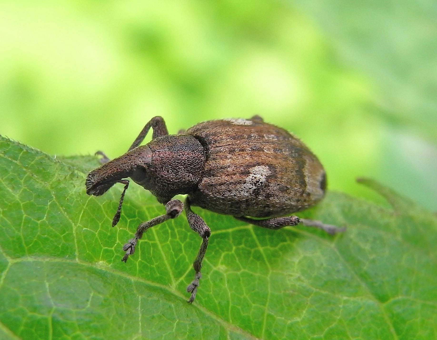 Graptus triguttatus from Hungary, in Bück-mountains at 2010-06-18 Ricoh R8